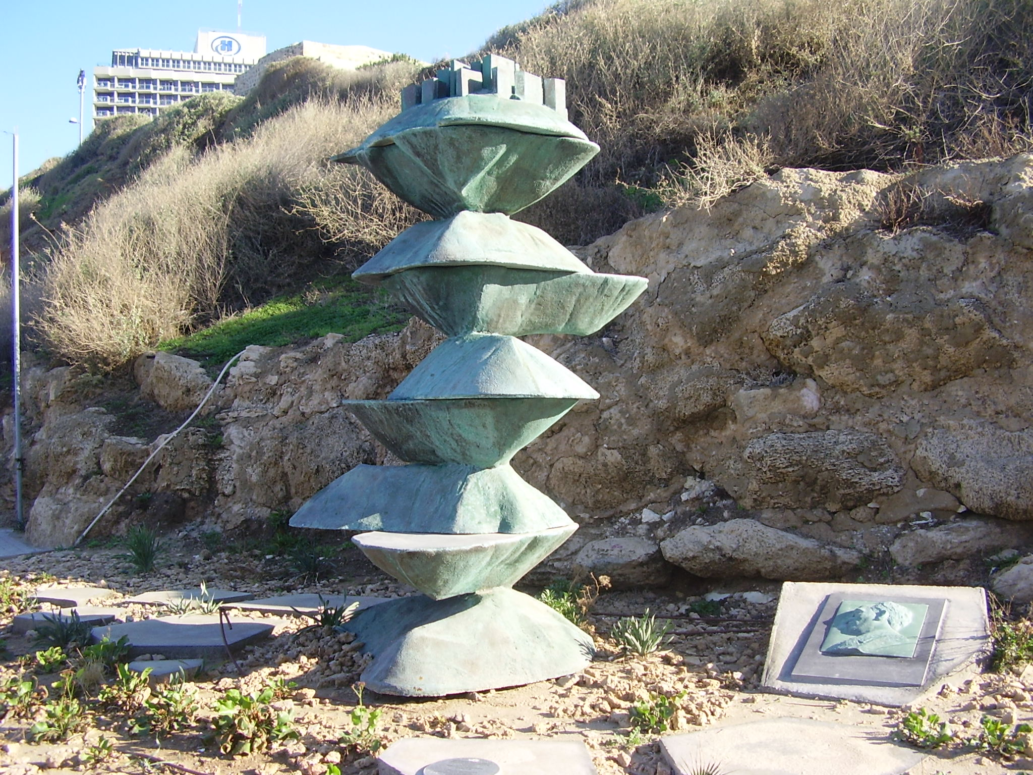 chaim arlosoroff memorial in tel aviv beach